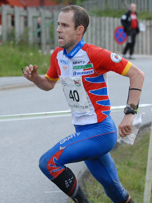 Holger Hott at the World Cup event in Norway 2007.